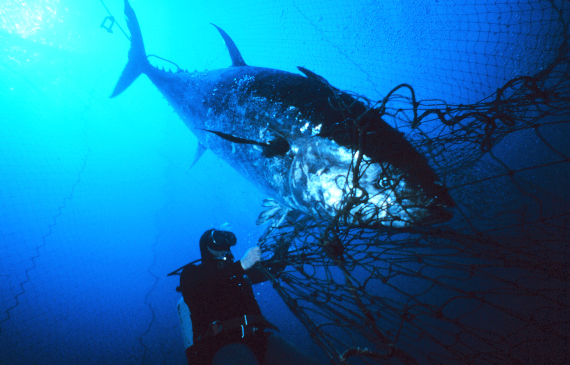 Atlantic bluefin tuna (Thunnus thynnus) ensnared near the mouth of the fish trap. Depth 25 meters. This tuna weighed 270 kilograms (approximately 600 pounds). Location: Favignana, Sicily, Italy